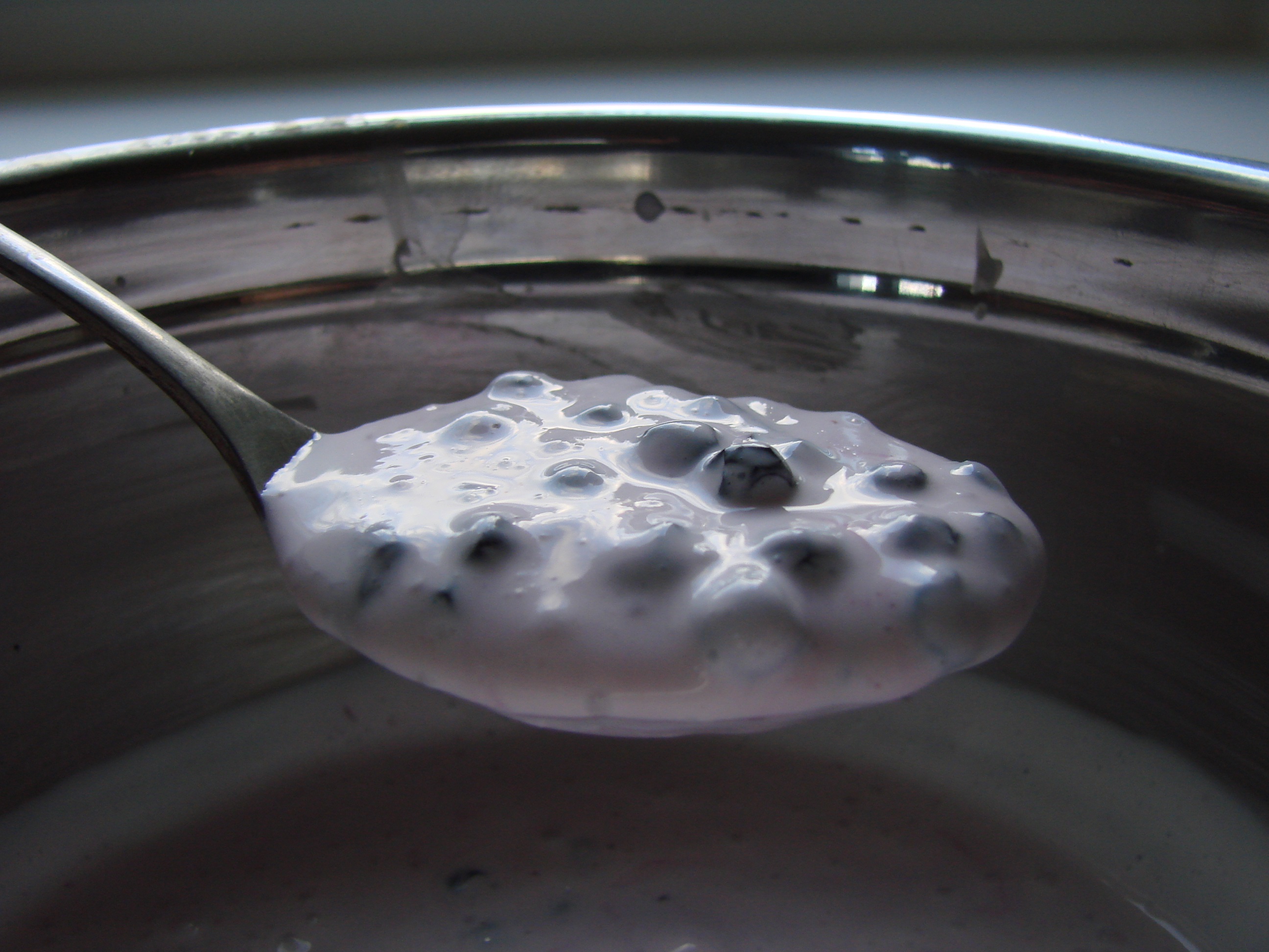 Kuerchekh or kierchekh, a traditional Yakut (Sakha) dish made of sour cream (or cream), berries (actually blueberries) and sugar. Milk (traditionally mare milk) can be added too.